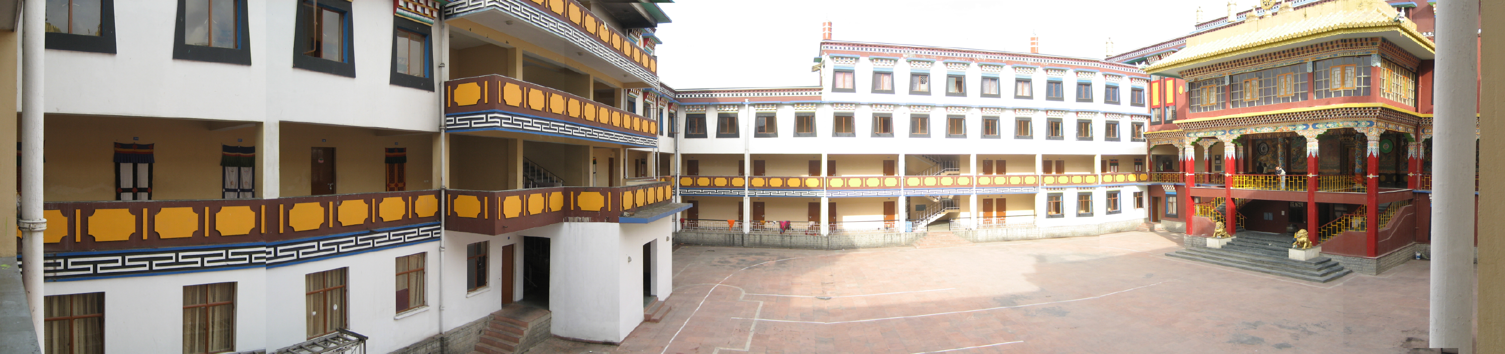 Palpung Sherabling — Tibetan Buddhist monastery in Himachal Pradesh, Northern India. Part of the Palpung Monastery of Sichuan. Check out the larger sizes.